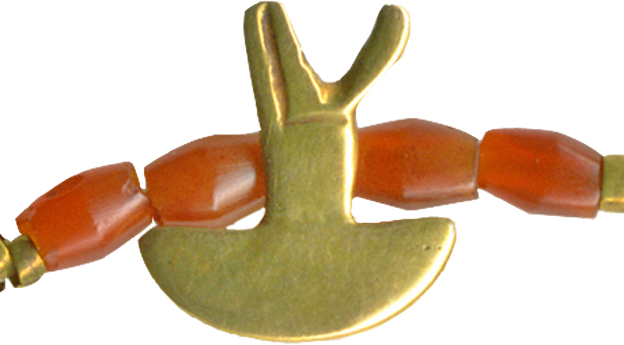 This (restrung) necklace consists of biconical carnelian beads, beads of rolled strips of sheet gold, and ten amulets. The rooster and couchant animal at either end of the necklace, cast of a pale yellow metal, probably do not belong. Below the rooster at left is a tiny heart amulet of carnelian. The other amulets are cut out of sheet gold of varying thickness and have rolled sheet gold loops attached to the back. Below the couchant animal at right is an amulet showing a man holding palm branches, which symbolized "millions of years." The six remaining figures are hieroglyphs as well. The three birds at left probably represent the sacred ibis of the god Thoth although the long body of one and thick bill of another seem more appropriate to ducks. Two amulets show the double crown resting on a basket, which signified royal power in Upper and Lower Egypt. Another basket amulet has something protruding from it.